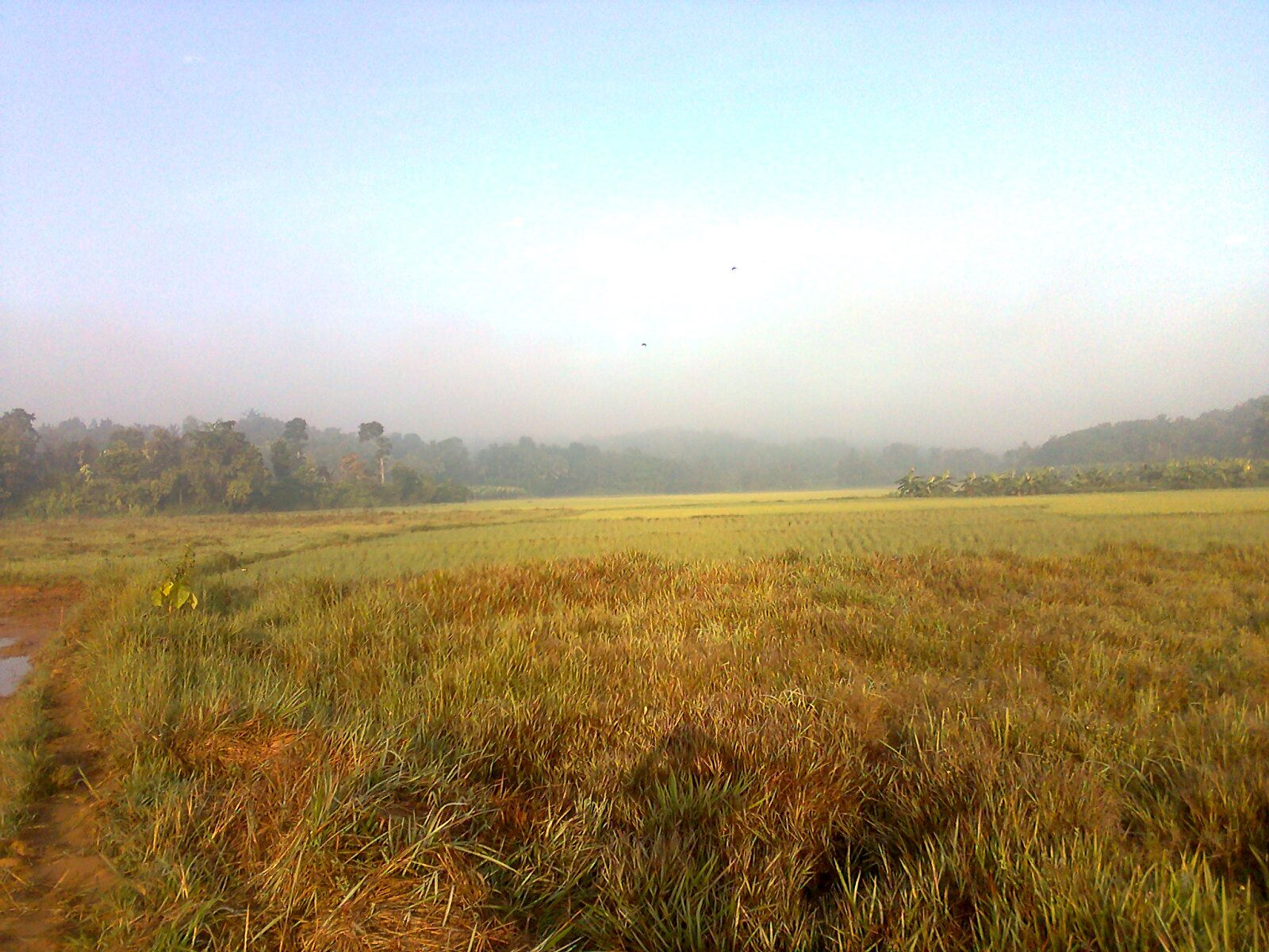 taken by me from puramathra, device nokia x3